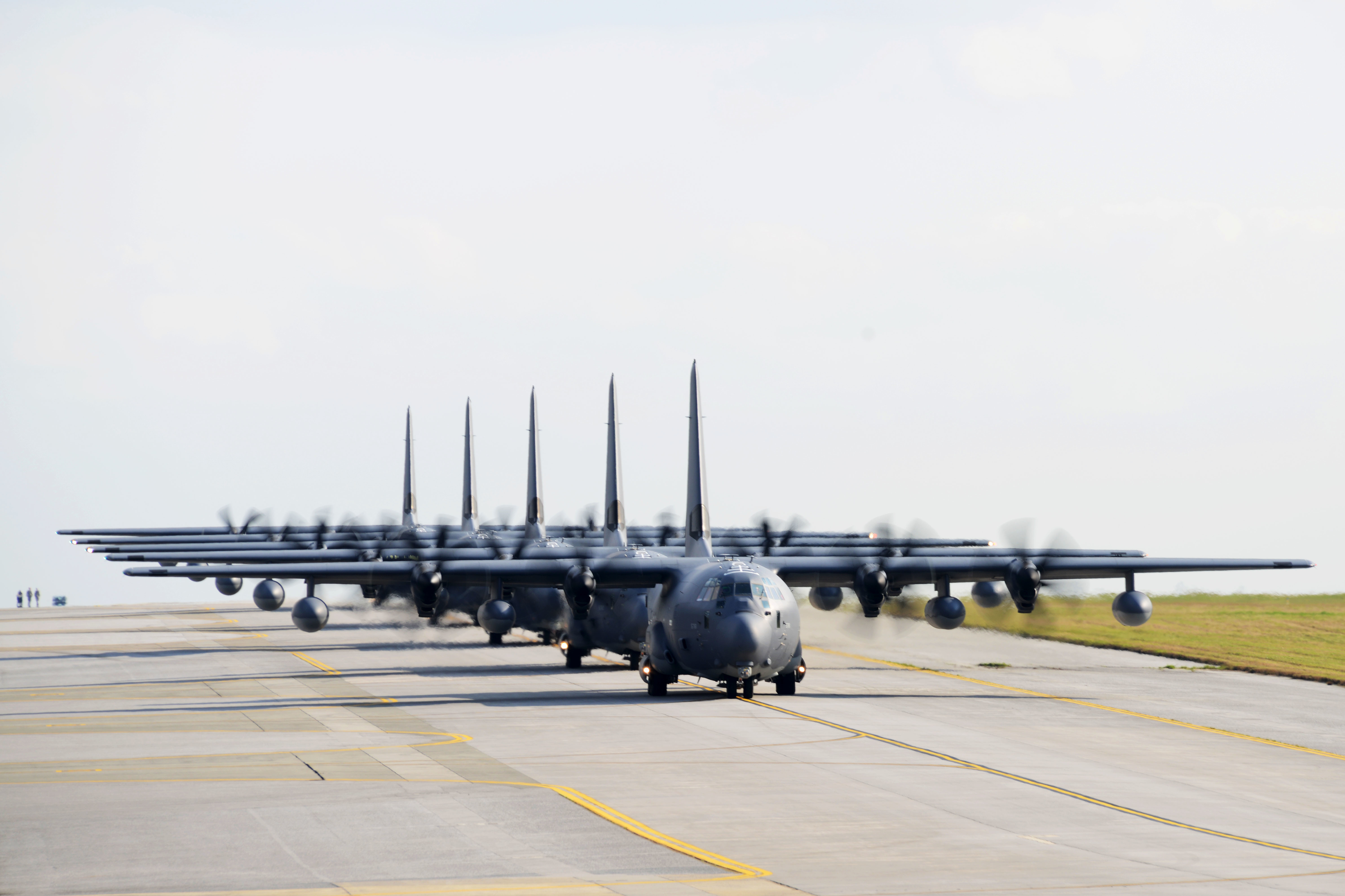 U.S. Air Force MC-130J Command IIs assigned to the 17th Special Operations Squadron taxi down the runway Feb. 17, 2016, at Kadena Air Base, Japan. The 17th SOS conducted a unit-wide training exercise which tasked the entire squadron with a quick-reaction, full-force sortie involving a five-ship formation flight, cargo drops, short runway landings and takeoffs, and helicopter air-to-air refueling. (U.S. Air Force photo by Master Sgt. Kristine Dreyer, 353 SOG PA/Released) Unit: 353rd Special Operations Group